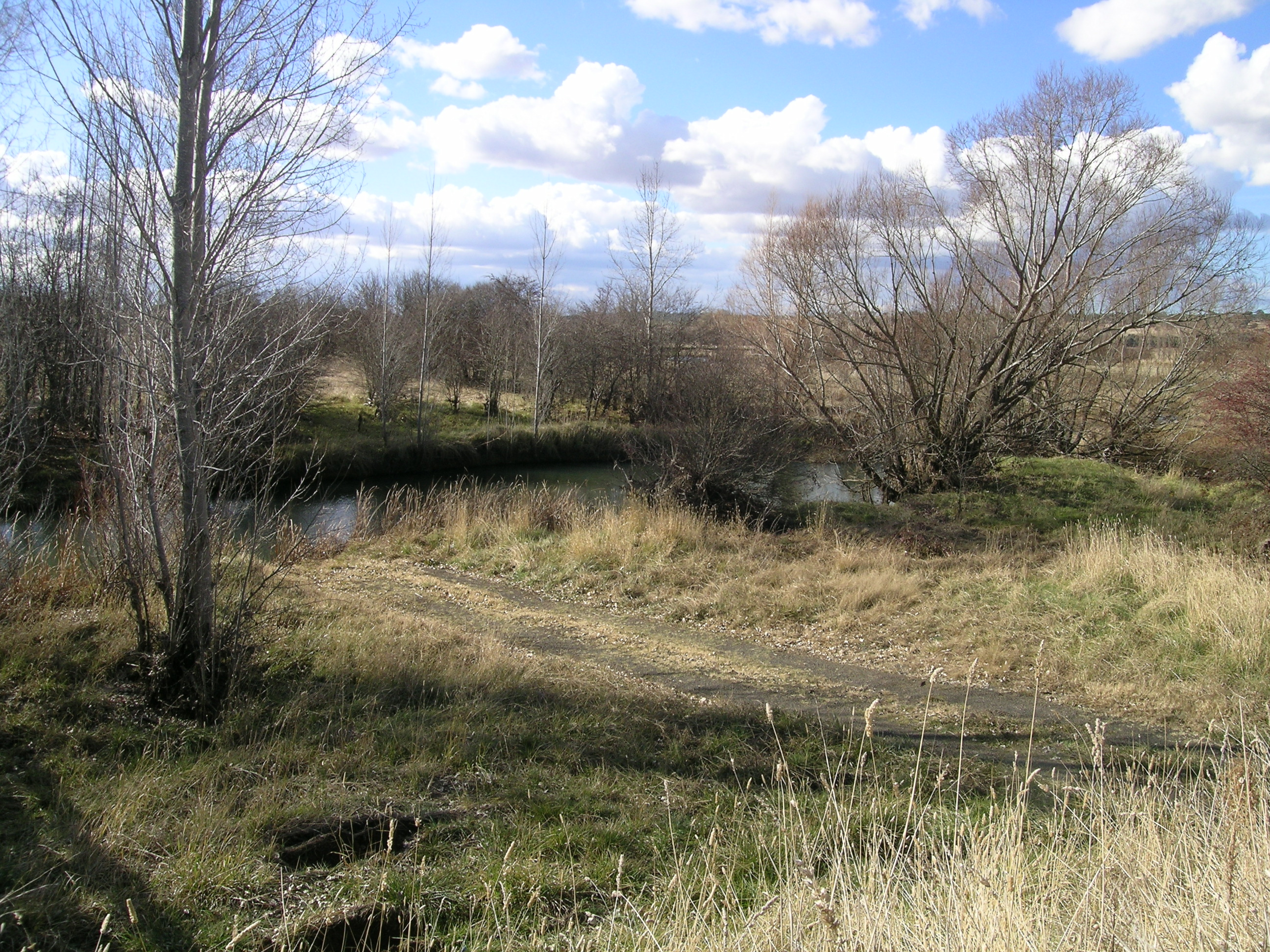 Beardy Waters, New England Highway, Stonehenge, NSW